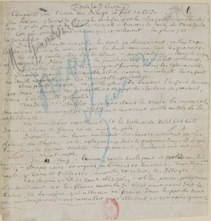 First folio from the manuscript Les Illuminations by Arthur Rimbaud, a poem entitled Après le Déluge. Dim. : 245 × 170 mm.